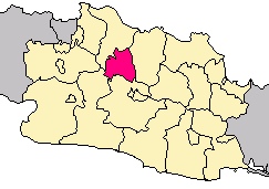 Purwakarta county in West Java province, Indonesia